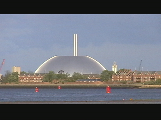 Marchwood incinerator dome. This view from the shoreline beacon mast, with the sun going down behind me. Subject is out of the grid square, but a nice shot. (I thought!)